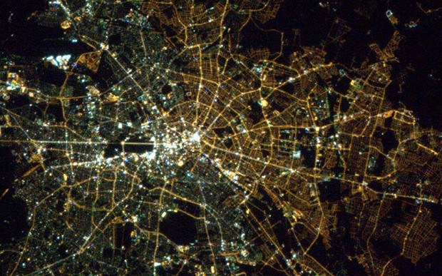 Photo of Berlin at Night, shot by Chris Hadfield on board the ISS with the Nightpod Camera.